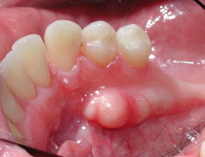 Right mandibular torus (as viewed in an intraoral mirror)